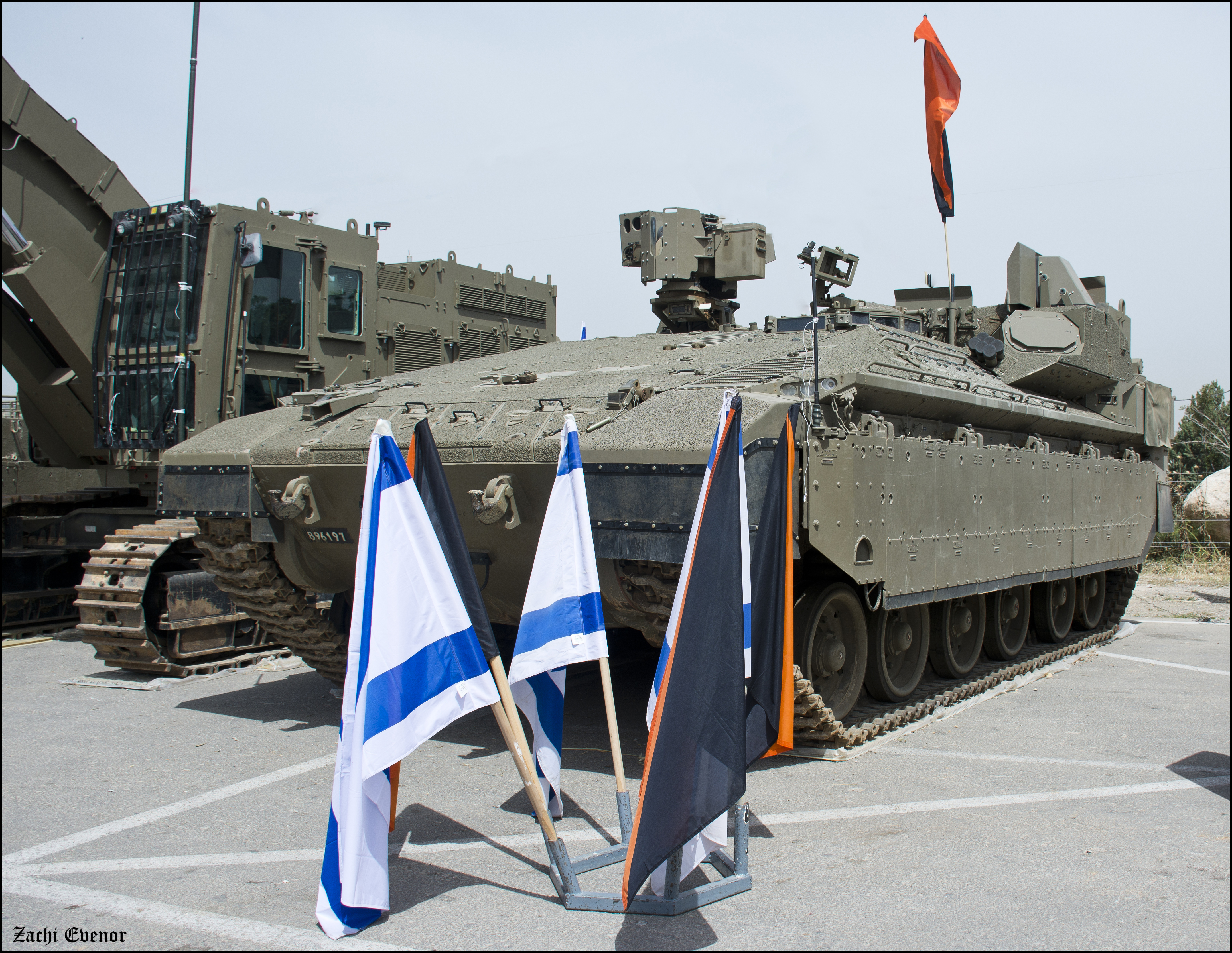 IDF Nammer CEV of the Combat Enginnering Corps, an engineering heavy APC based on a Merkava 4 chassis and includes TROPHY (Windbreaker) Active Protection System